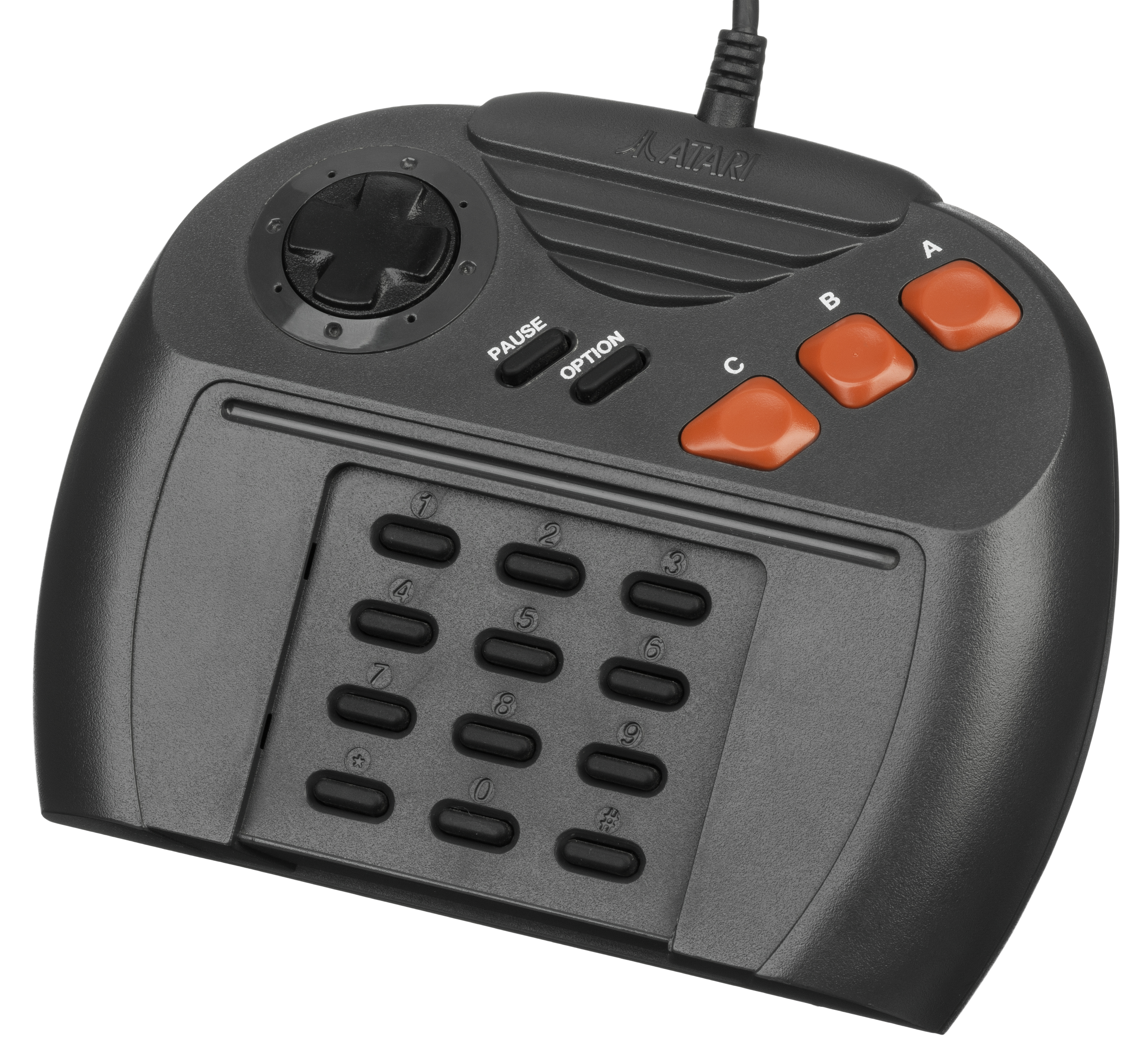 The standard controller for the Atari Jaguar. A weird controller that was comfortable, but still seemed ill-suited for a 3D gaming console. The number pad with overlays and lack of face buttons seems to show a lack of forward thinking on Atari's part.